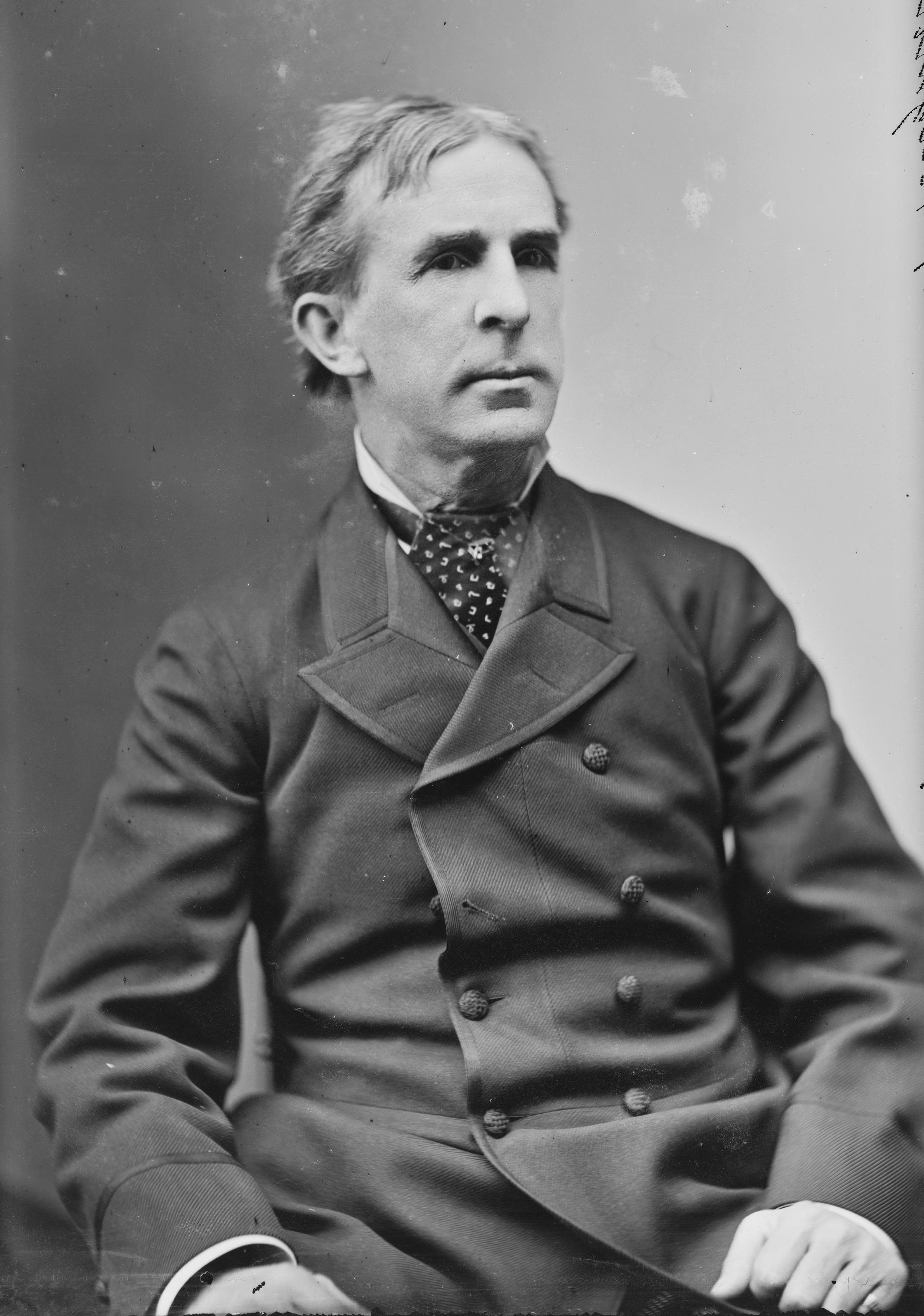 John T. Raymond. Library of Congress description: "Raymond, John T. Actor".